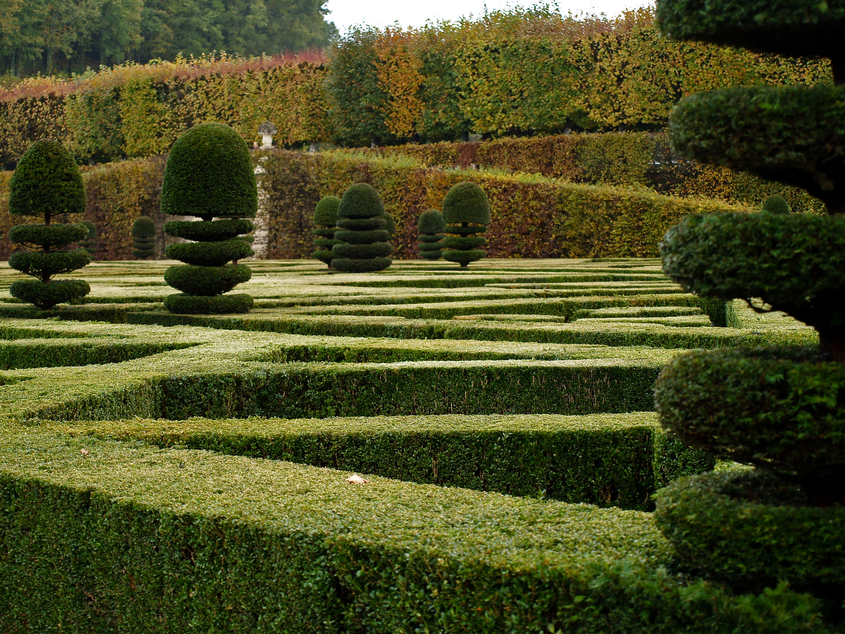 Taxus topiary and buxus hedges in the “Music garden” at Villandry Castle (Indre-et-Loire, France)